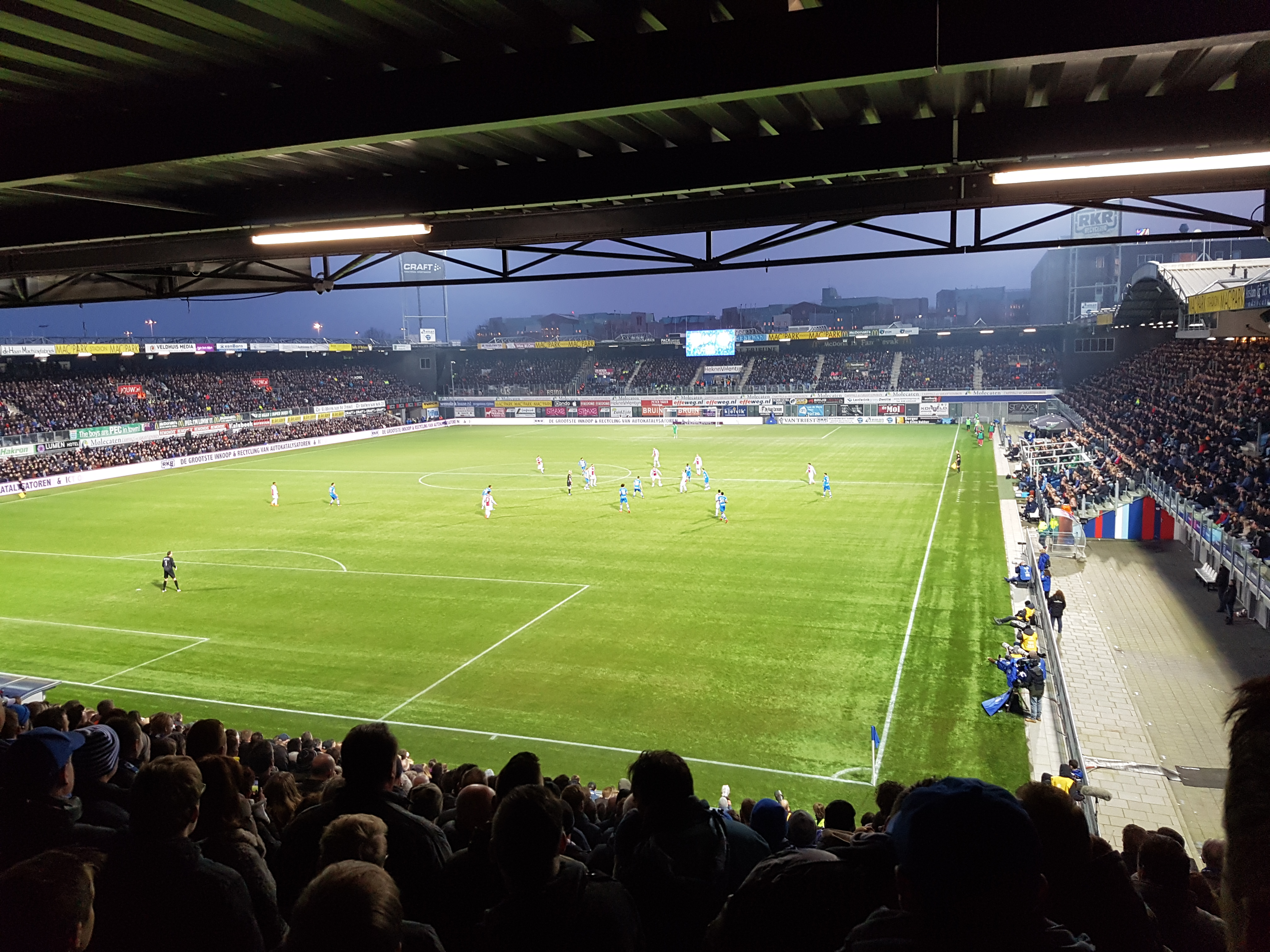 Eredivisie game, PEC Zwolle vs. AFC Ajax, 18 February 2018